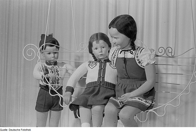 Three child mannequins by Käthe Kruse wearing clothing by VEB EKO Oschatz